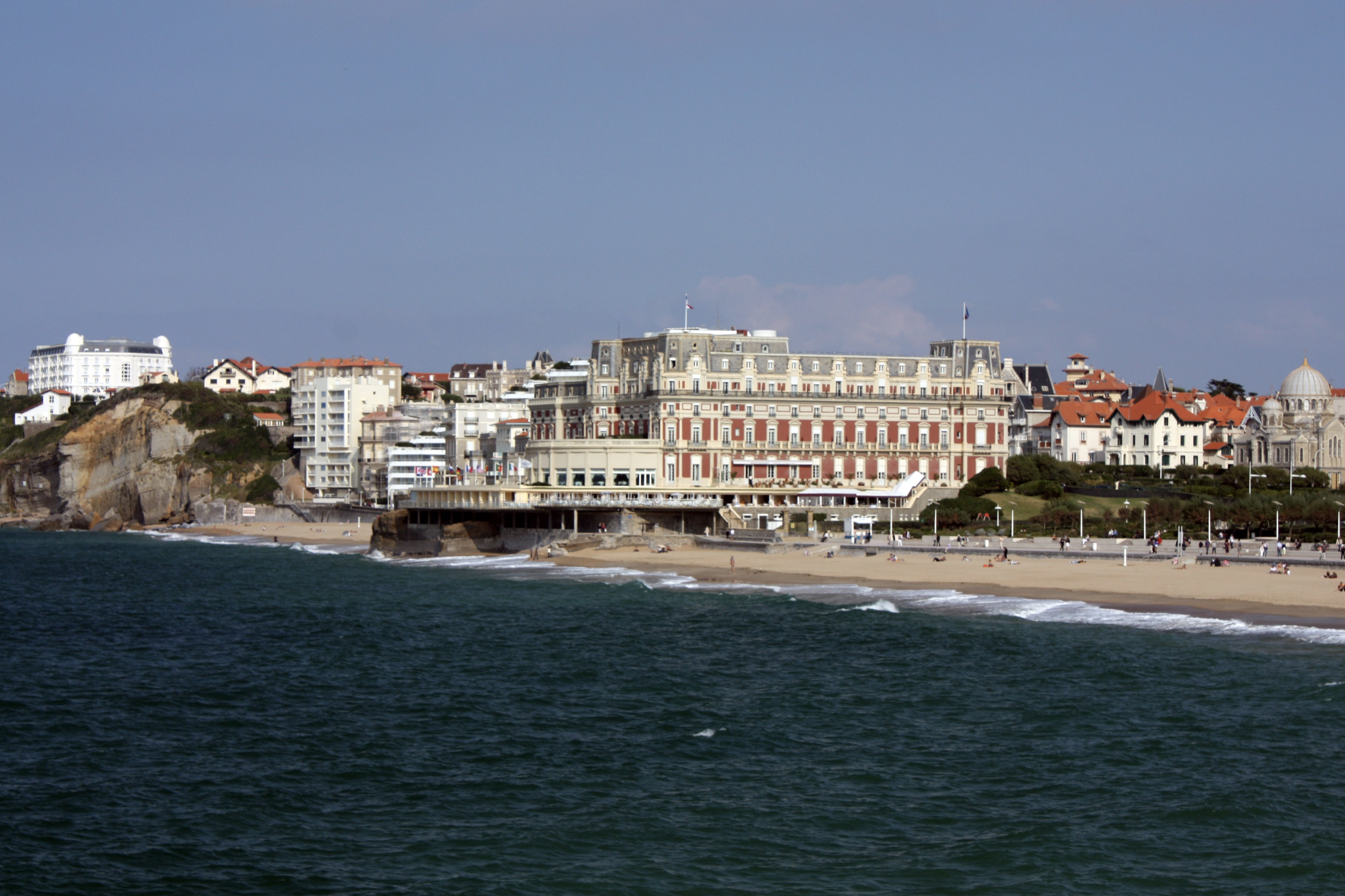 The Hotel du Palais, summer residence of Eugenie de Montijo. On the right, the Orthodox church, in the upper left the Hotel Victoria, the Surf behind the Miramar Palace.